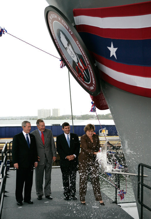 President George W. Bush joins his father, Former President George H. W. Bush and Northrop Grumman President Mike Petters, as his sister Doro Bush Koch breaks the bottle to christen the George H.W. Bush (CVN 77) in Newport News, Virginia, Saturday, Oct. 7, 2006. White House photo by Eric Draper